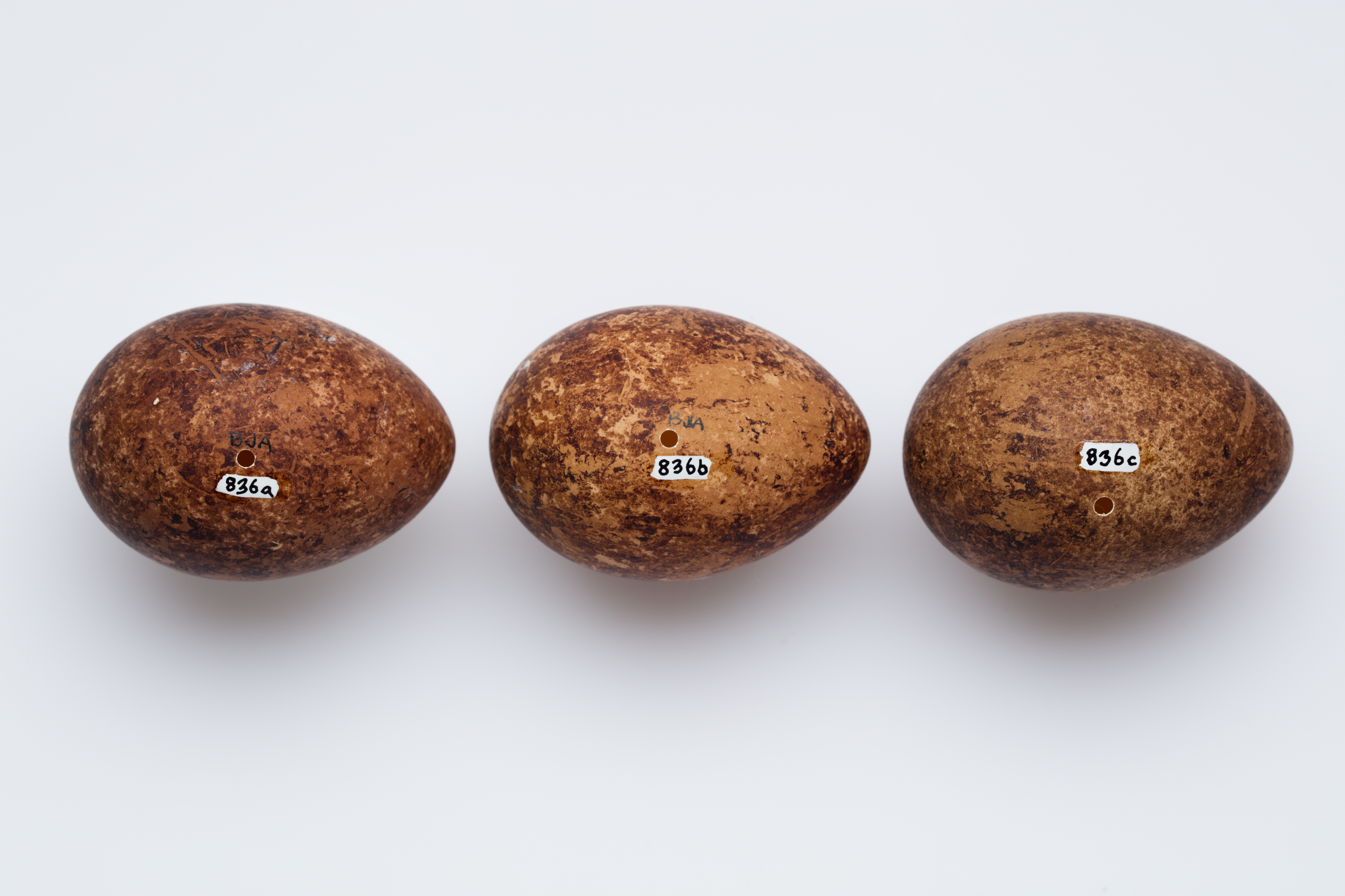 New Zealand falcon, Falco novaeseelandiae, (AM LB836) eggs from the Auckland Museum collection